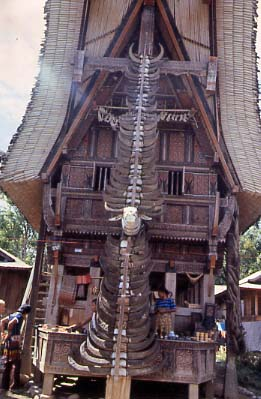 Toraja house (tongkonan). Toraja is an ethnic group in West and South Sulawesi, Indonesia